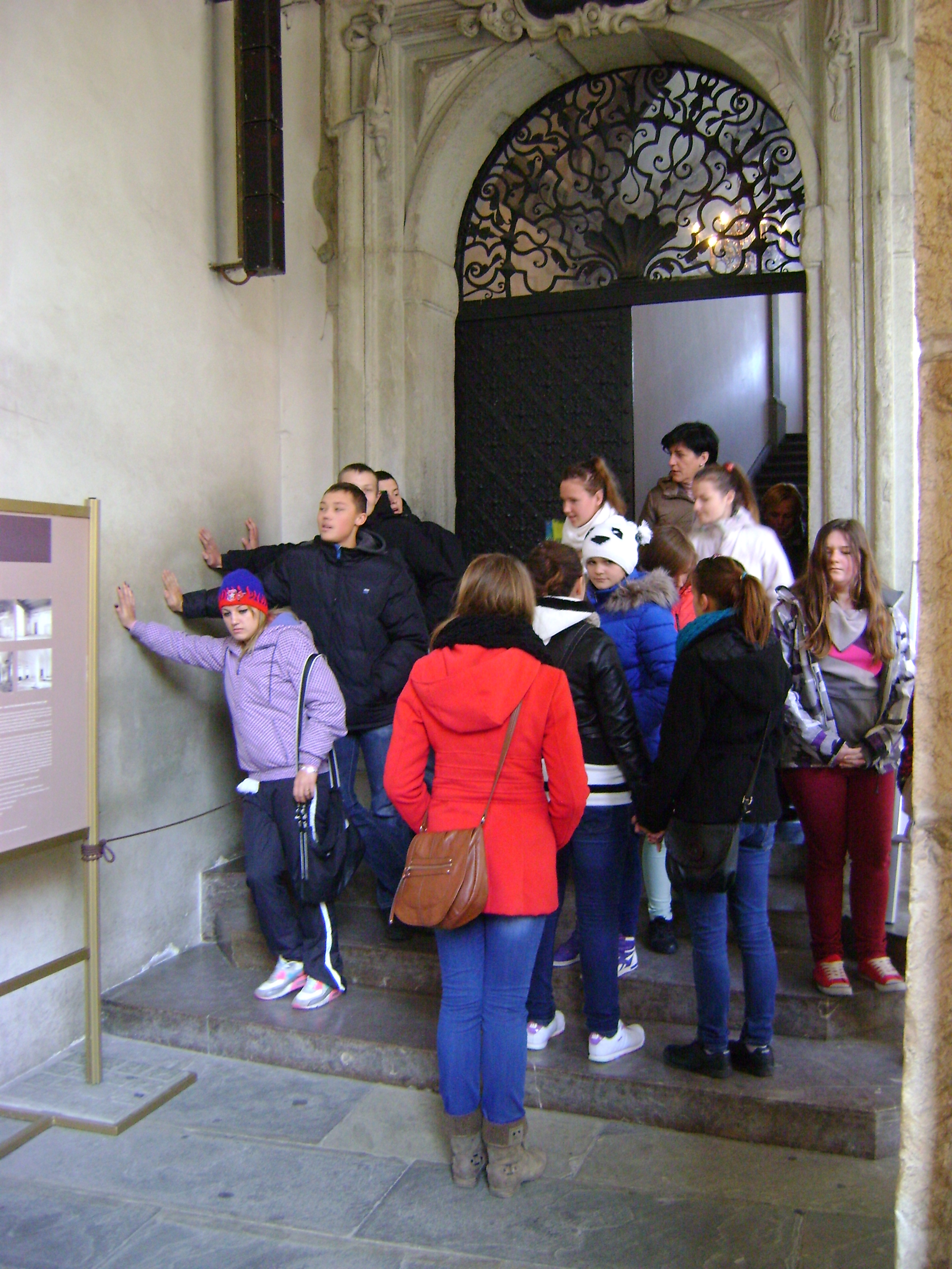 Wawel Chakra - tourists